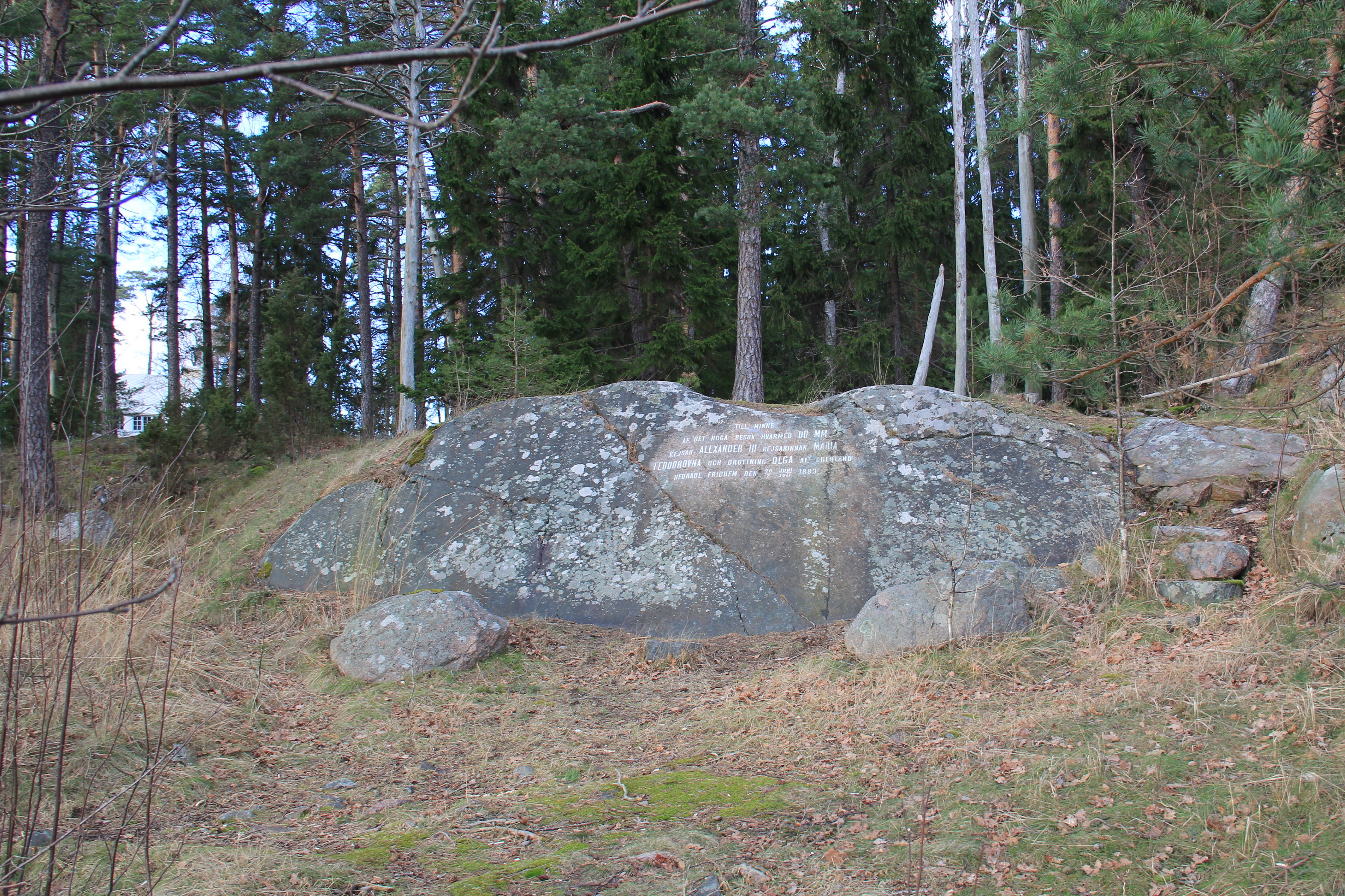 Emperors stone, Villa Frosterus, Soukanniemi, Espoo, Finland. - Rock carving is memorial of Alexander III of Russia visiting Villa Fridhem in 1889. - Seen from shoreline.